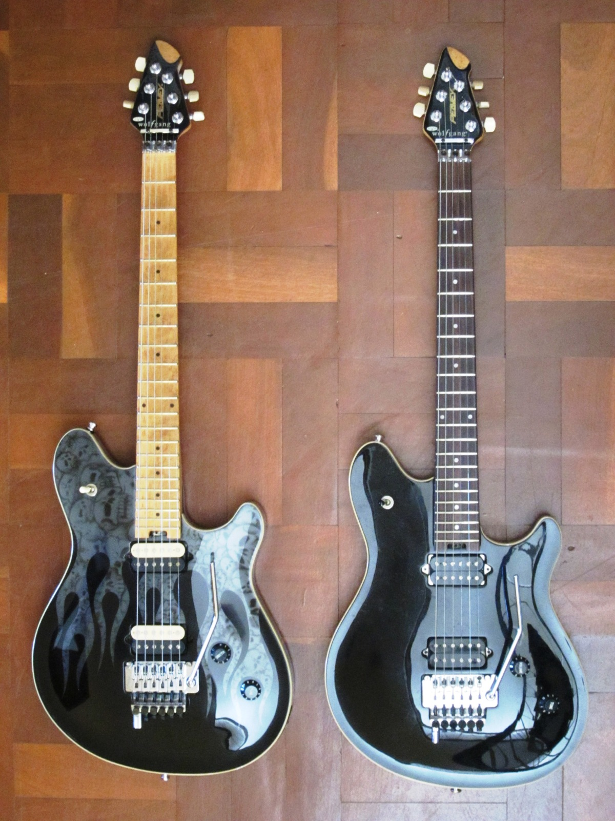 Two custom models of the Peavey EVH Wolfgang: a custom graphic model and a rosewood fingerboard one.